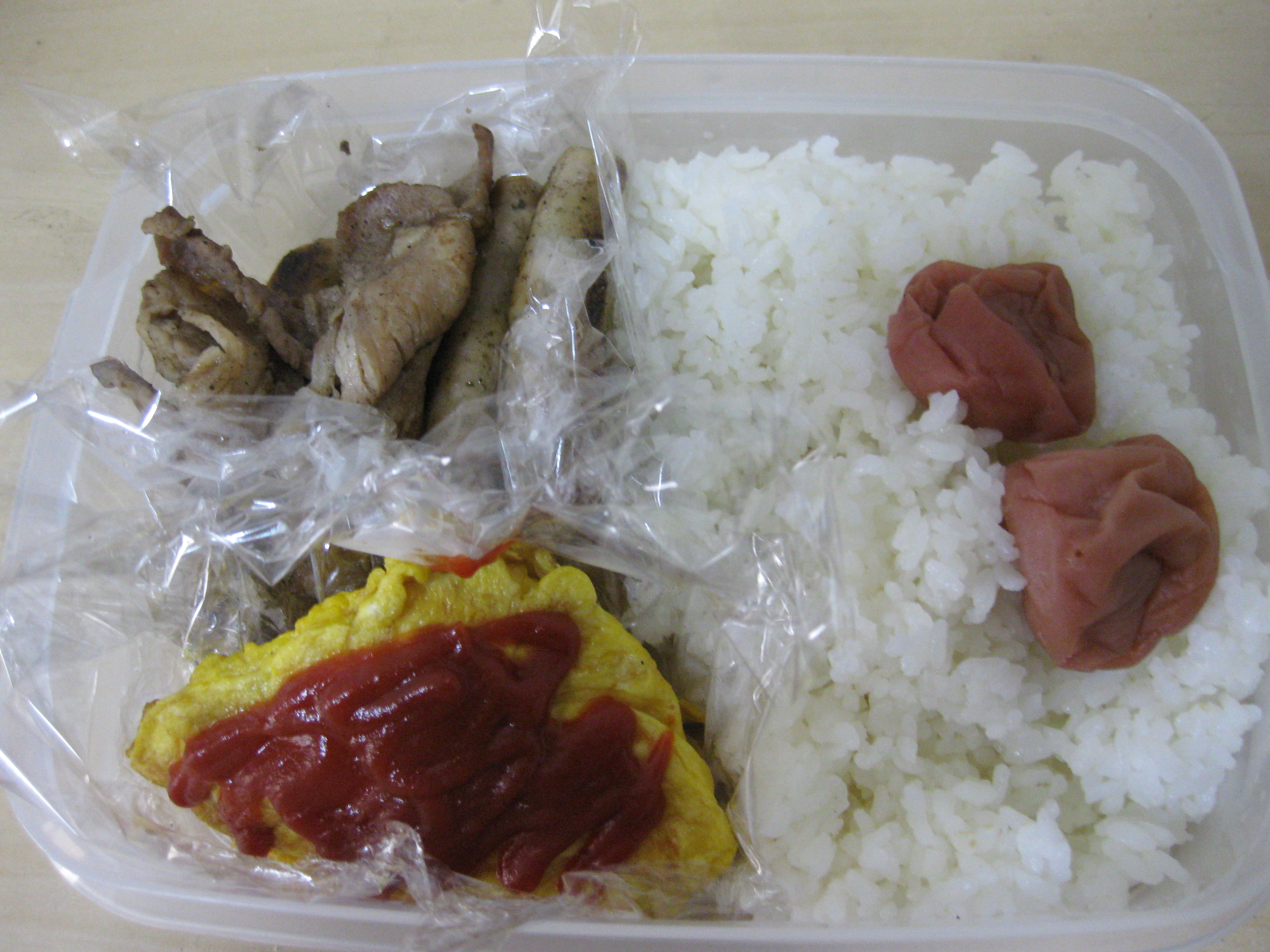 Umeboshi Bento with Okazu